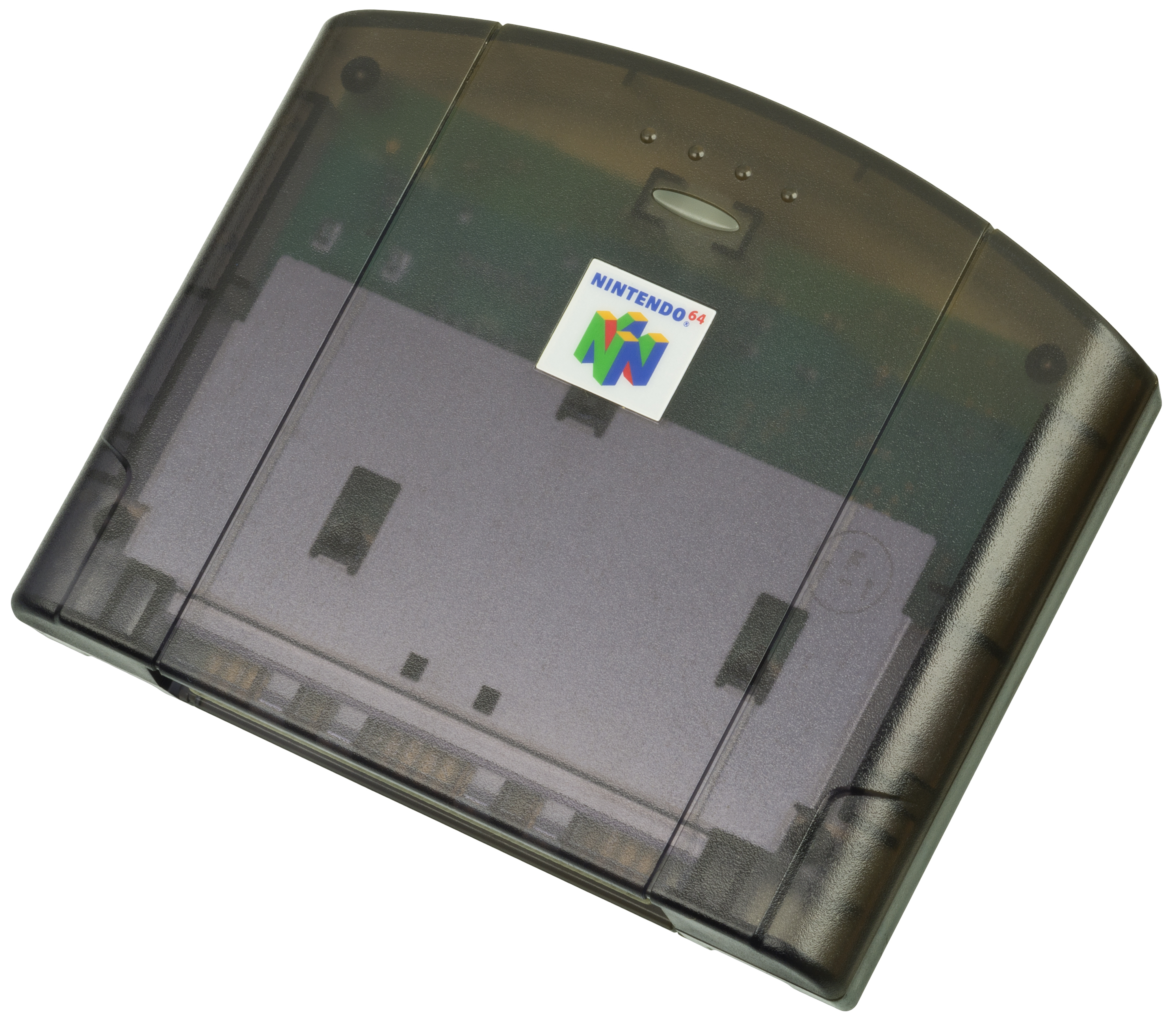 The front of the dial-up modem cartridge for the Nintendo 64 video game console. Used in conjunction with the 64DD add-on and the Randnet service, a very brief service that lasted a little over a year from 1999 to 2001.